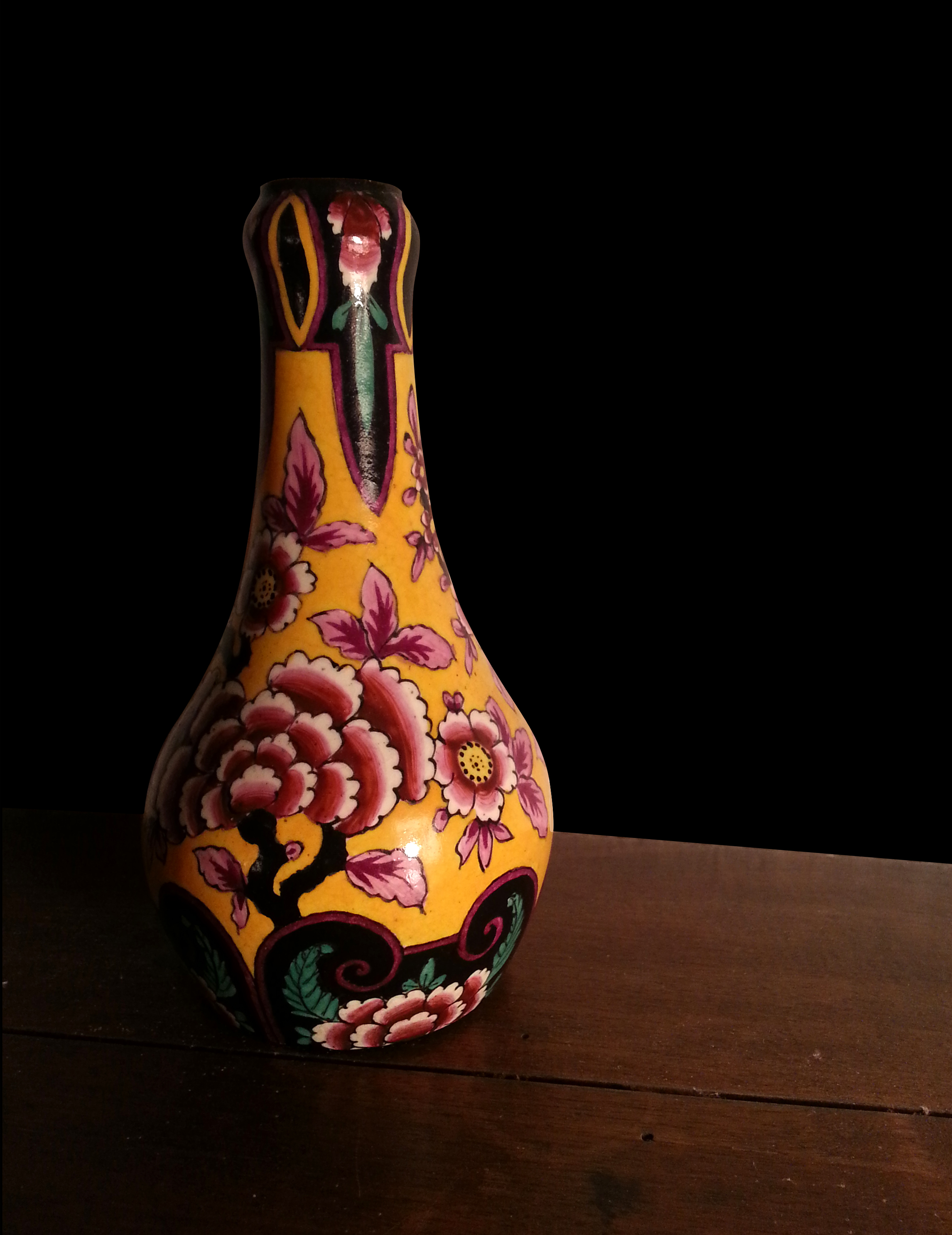 André Duquenelle faïence pottery of Clamecy in France He was inspired by Chinese ceramics from the Ming dynasty